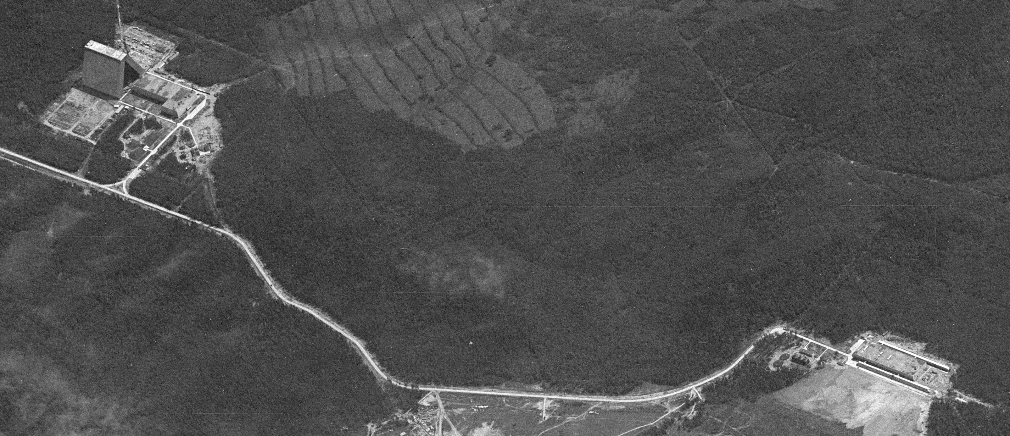 Both transmitter and receiver of Dunay 3 ABM radar in Kubinka outside Moscow. Declassified photo from KH-7 spy satellite from 1967.